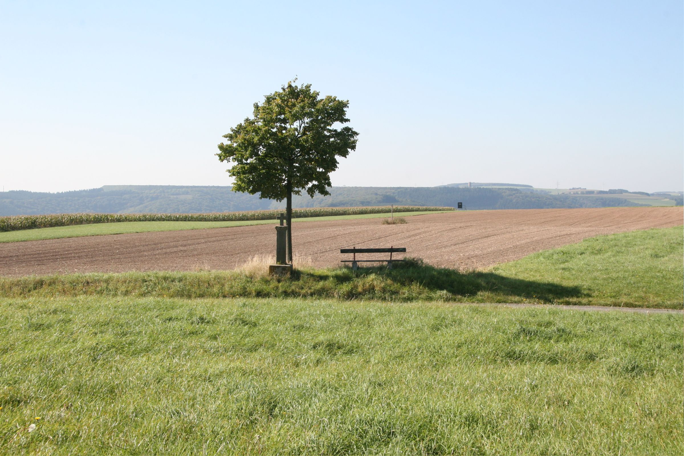 The former "Bauler Kläschen", marked by a cross on the roadside near Bauler, Eifel, Germany.